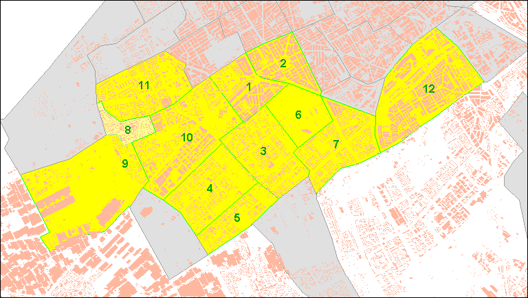 Area in The Hague (Netherlands) where The Hague dialect is spoken.